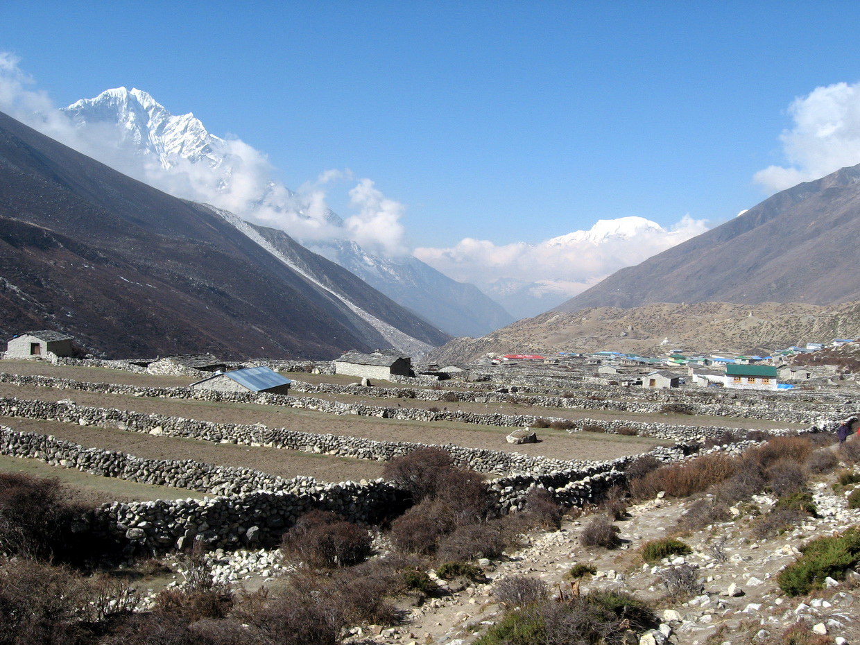 Imja valley leading to Dingboche.